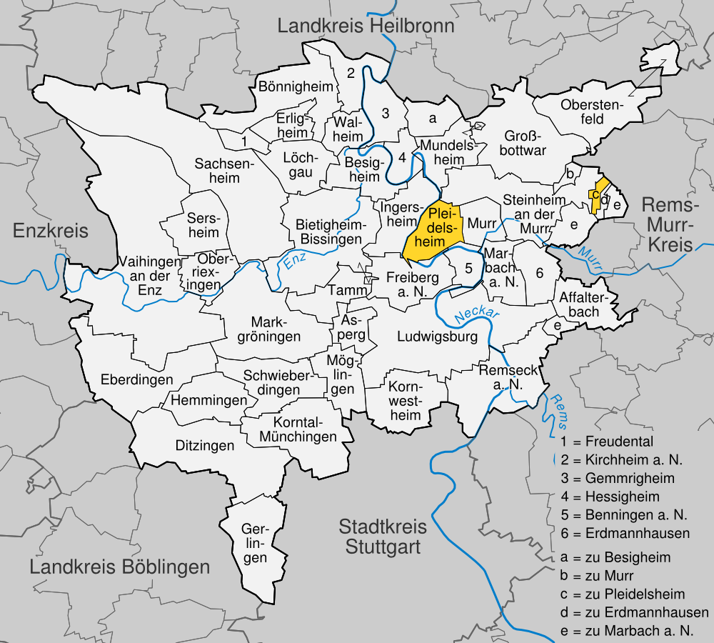 position of Pleidelsheim within distict of Ludwigsburg, Baden-Württemberg, Germany